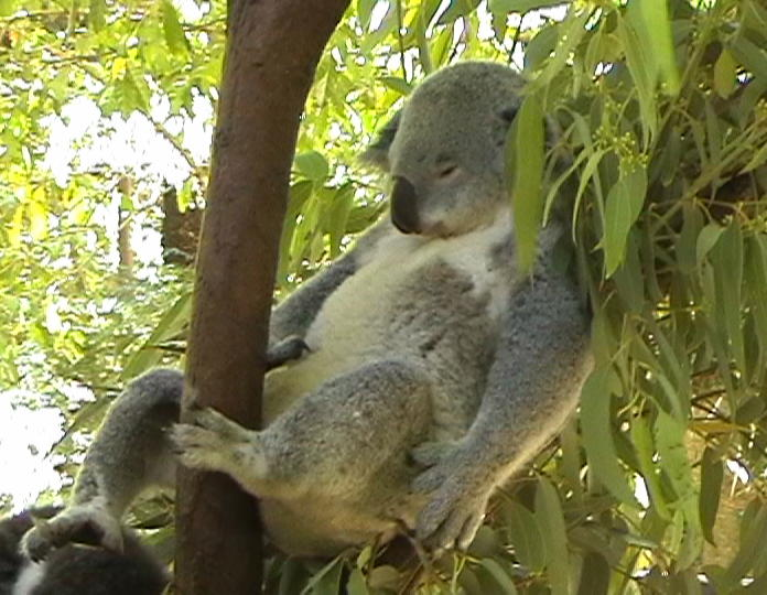 At the Sydney Koala Park